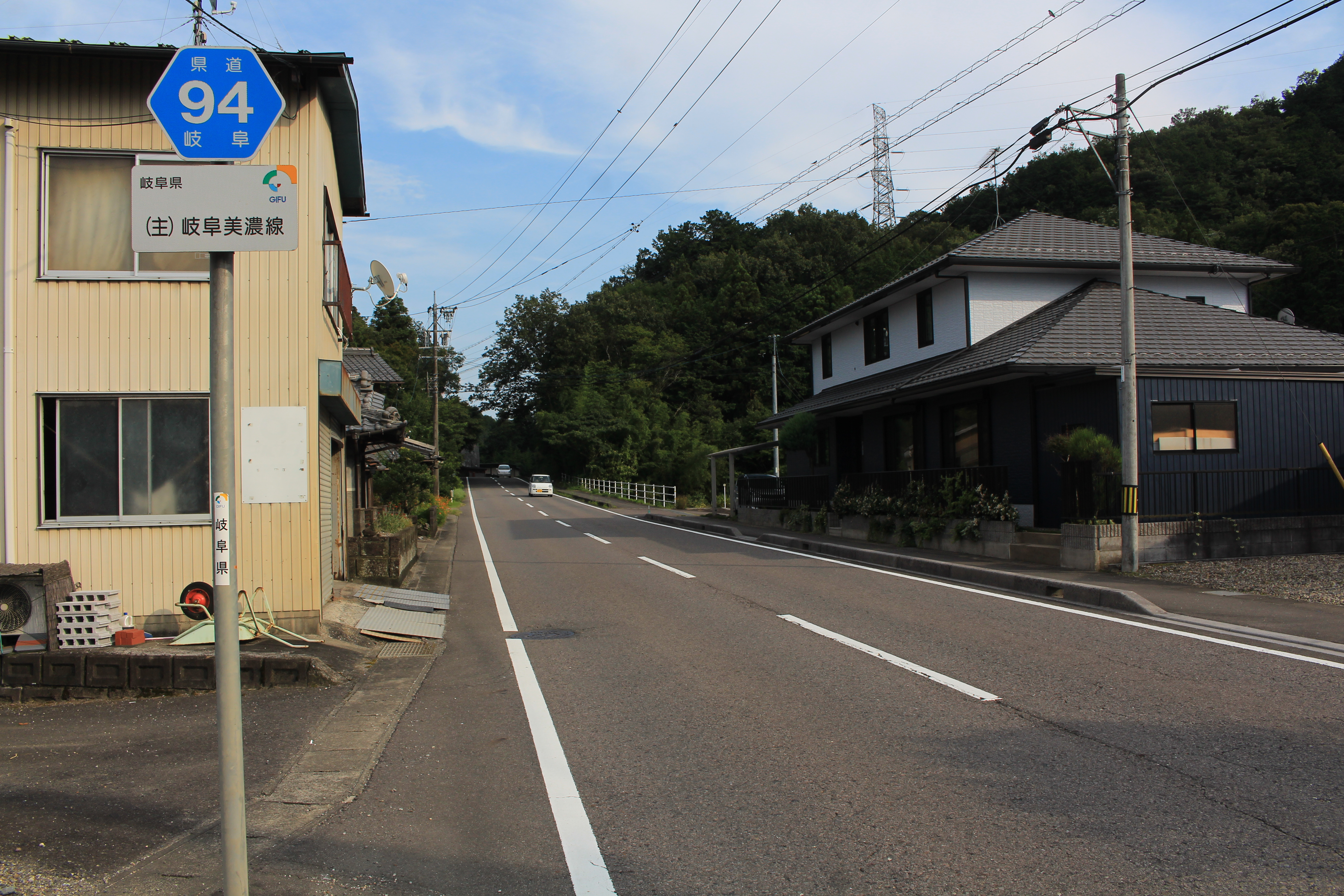 Gifu Prefectural Road Route 94 in Sekibe, Mugagawacho, Seki, Gifu Prefecture, Japan.